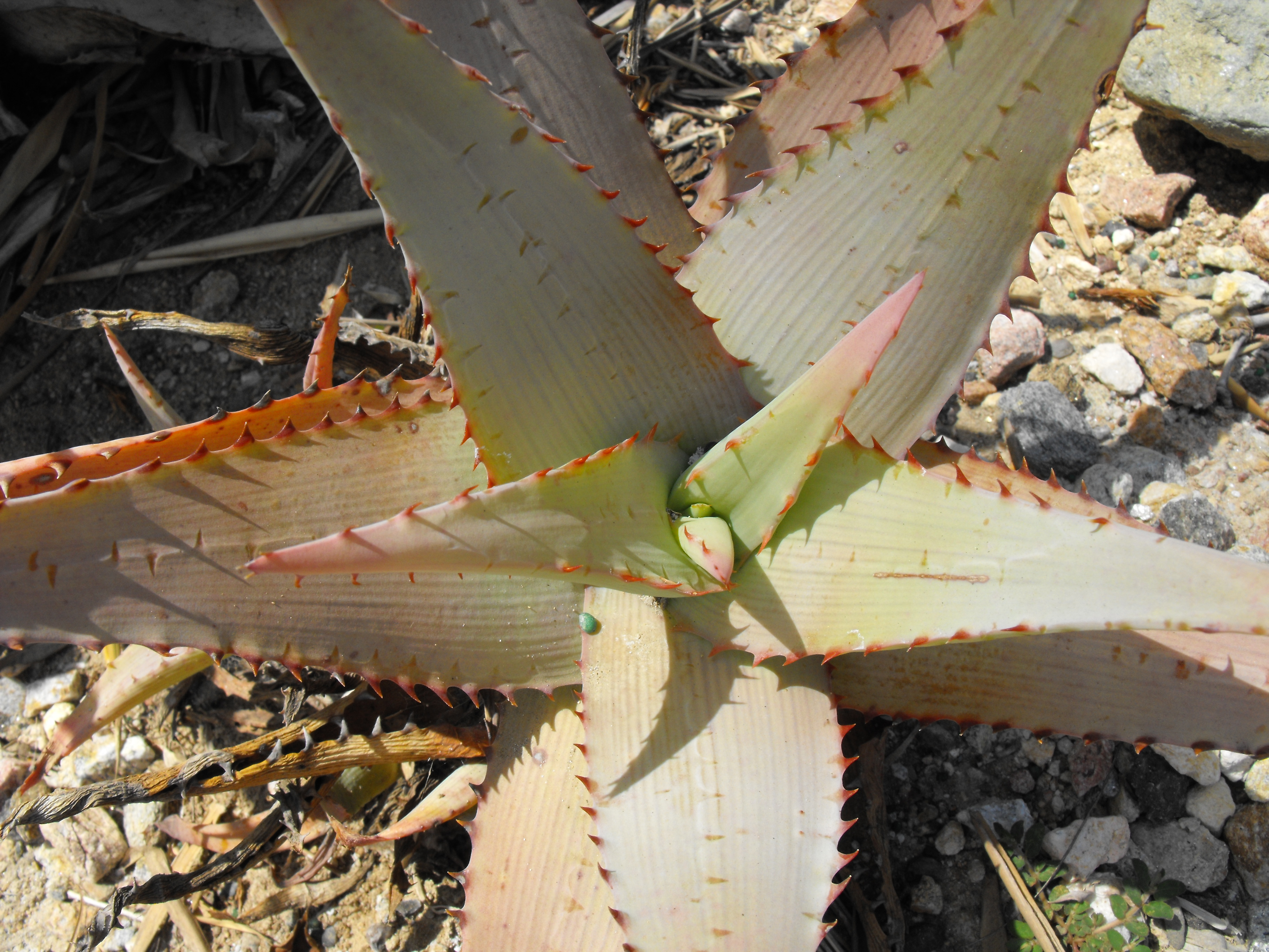 Aloe glauca at Quail Botanical Gardens in Encinitas, California, USA.